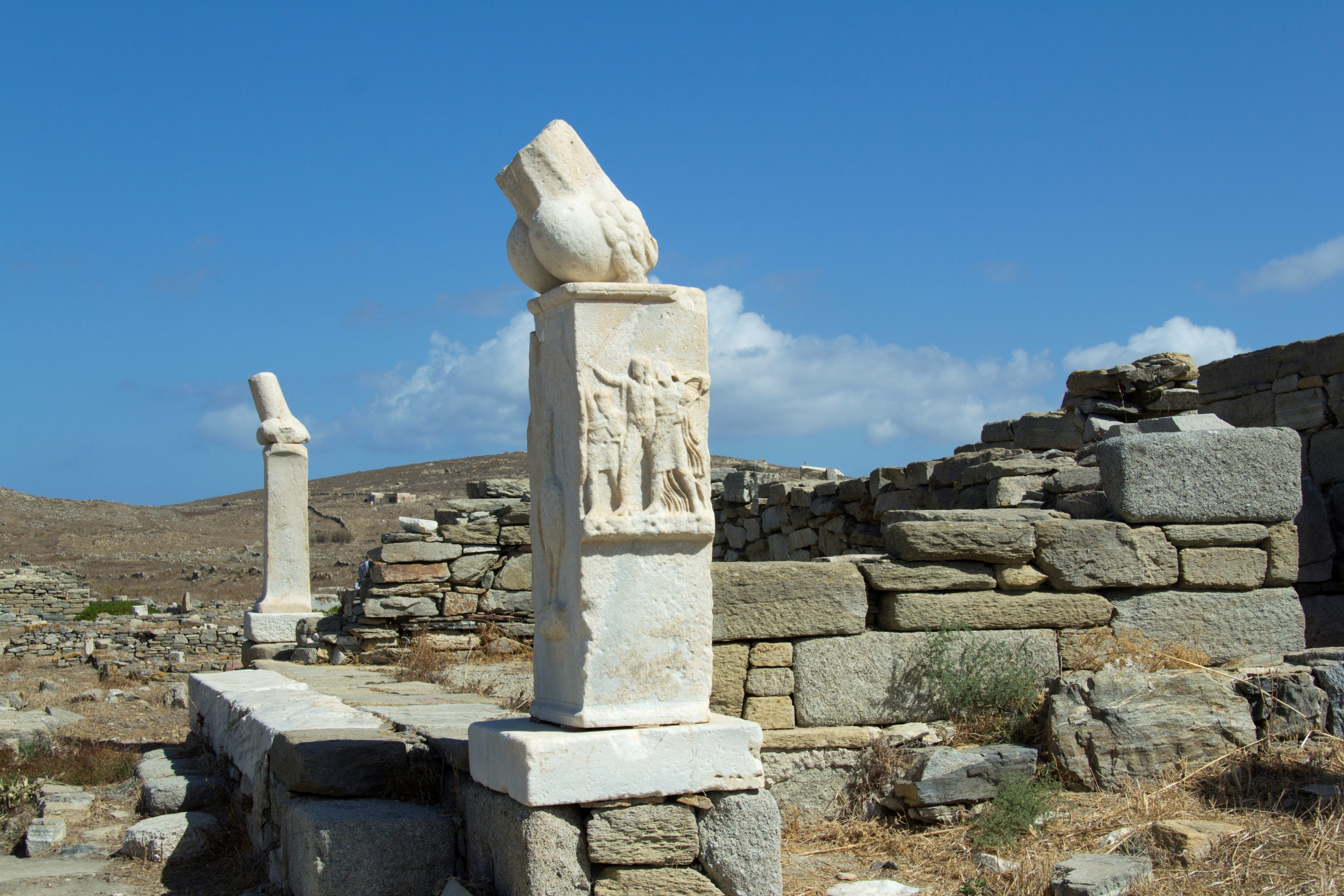 Stoivadeion (Stoibadeion) before the Temple of Dionysus on Delos.